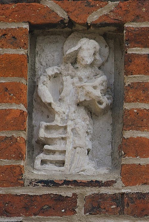 Sculpture St. Laurentius, St. Peter church, Malmo, Sweden, about 1460.